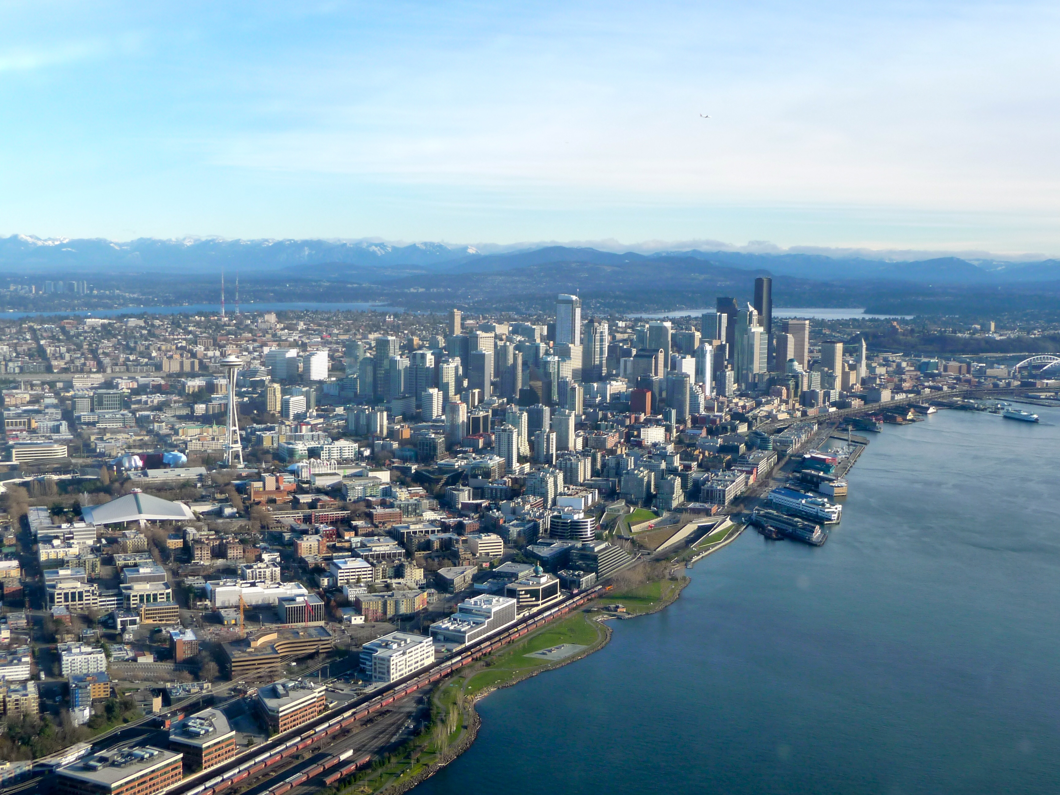 An aerial photograph of the Seattle downtown, Elliott Bay, and lower Queen Anne. Pictured in the background are Lake Washington, Downtown Bellevue, and the Cascade Mountains.